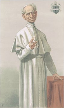 Caricature of His Holiness Pope Leo XIII.